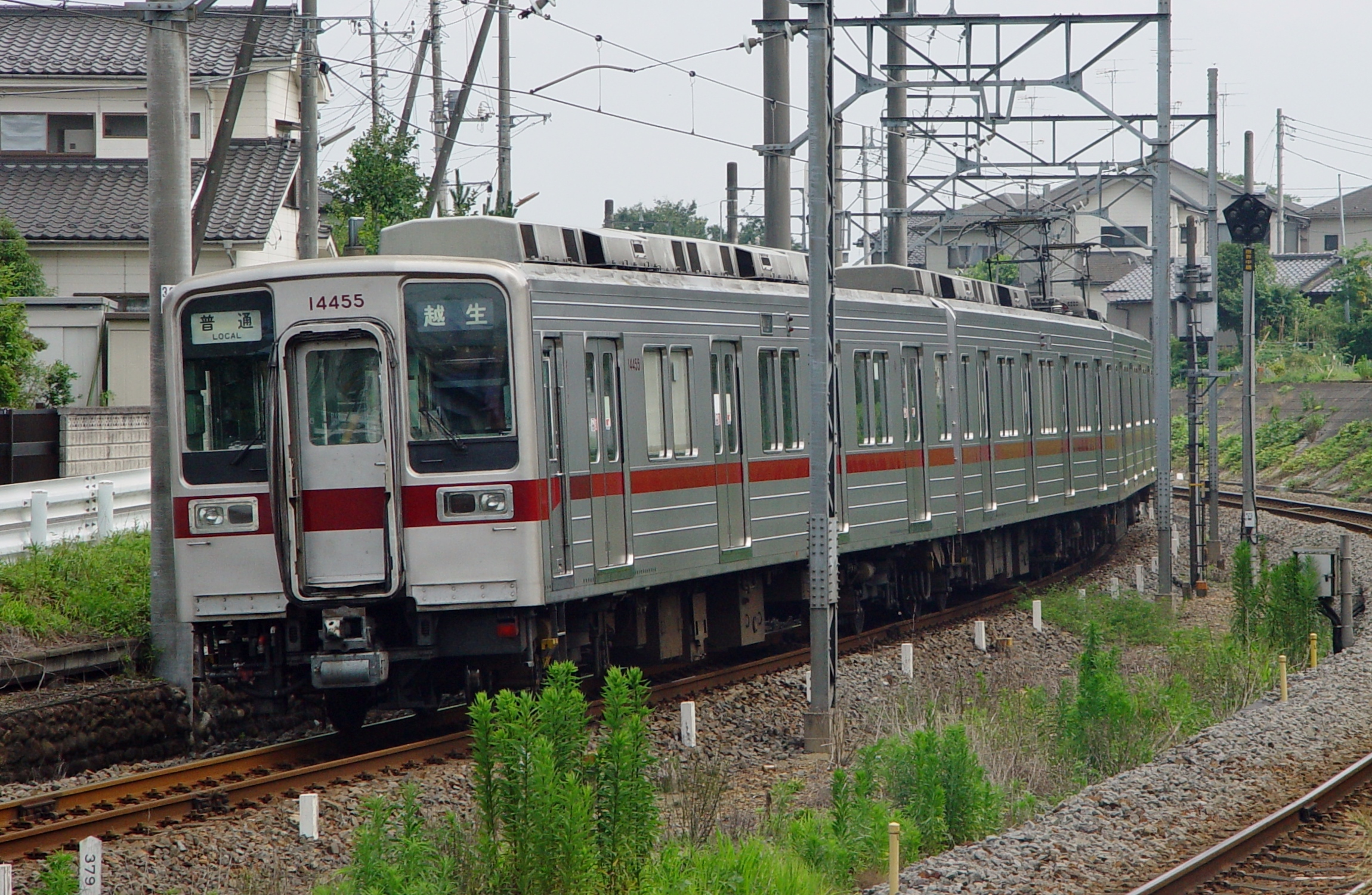 Tobu 10050 series 4-car EMU set 11455 approaching Ogose Station on a Tobu Ogose Line service from Sakado